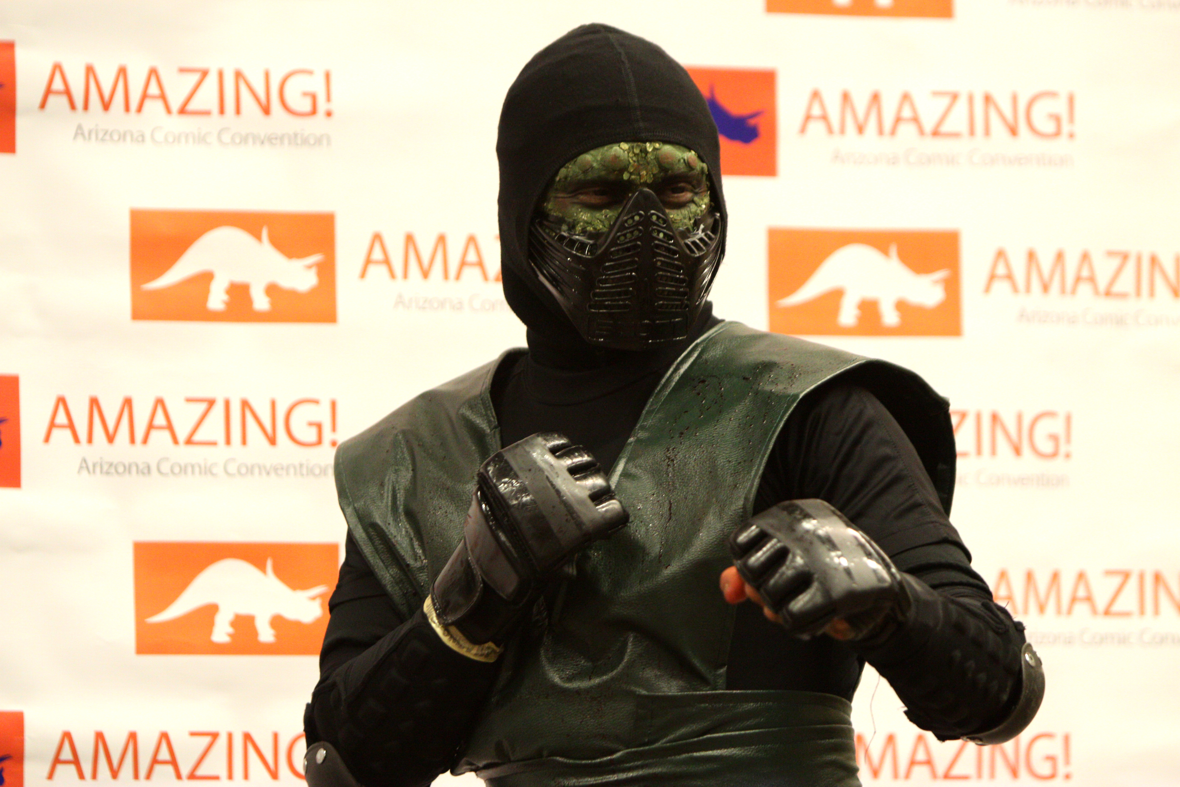 Amazing Arizona Comic Con at the Phoenix Convention Center in Phoenix, Arizona.